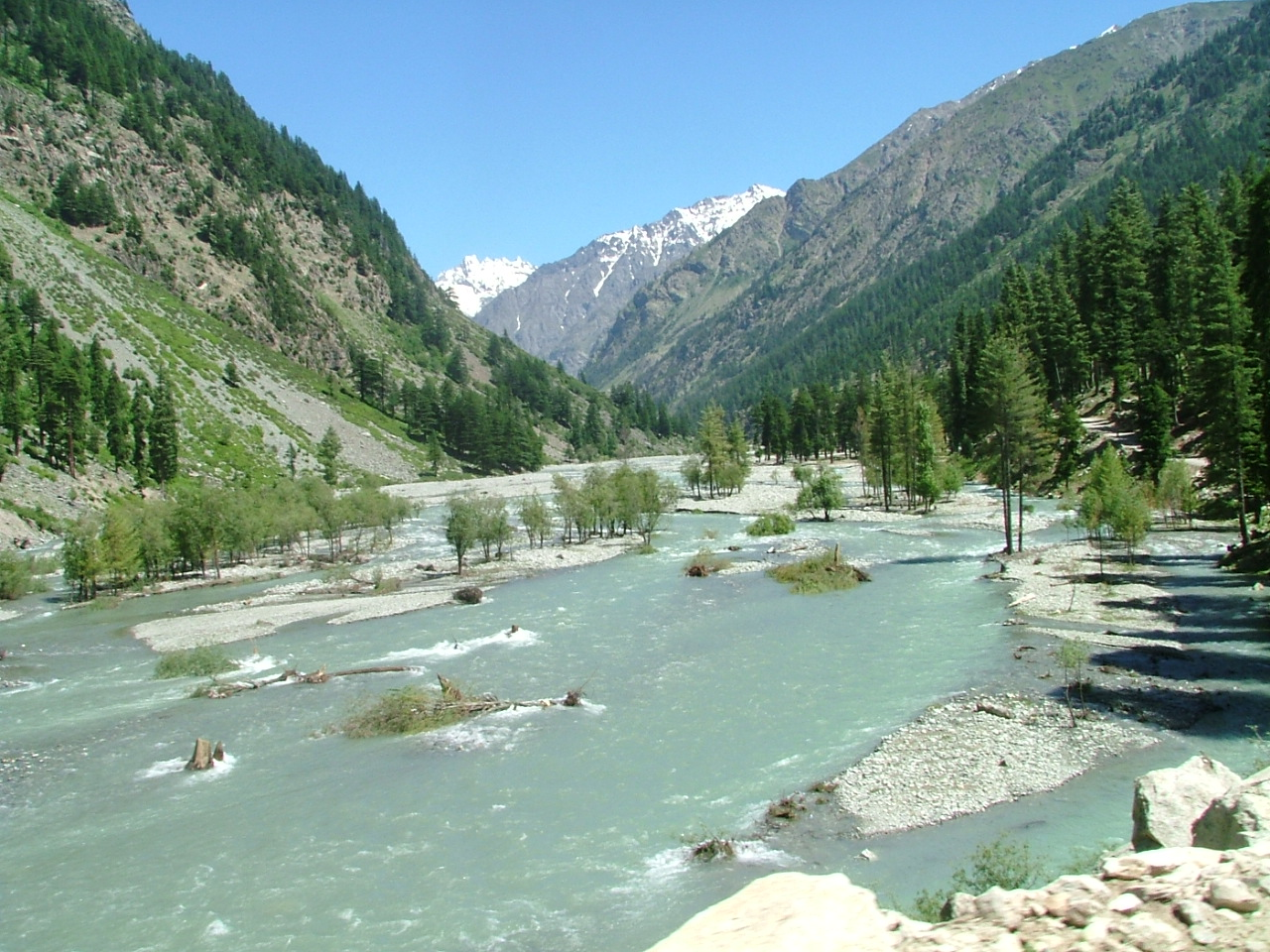 A clear blue river en route Lake Mahudand, Swat.